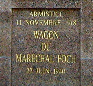 Text in front of the building with the railway-wagon from the armistice in 1918 and 1940. 22. april 2012.